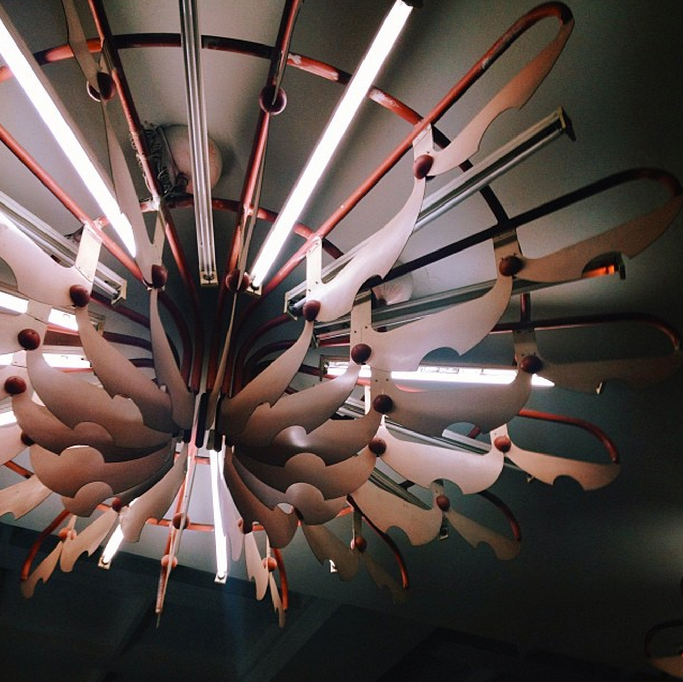 An art deco light fixture from Архітектора Бекетова (the Arkhitektora Beketova Station).